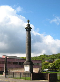 Renton, Tobias Smollet Monument. Tobias George Smollet was born at Dalquhurn, Dunbartonshire. He was educated at Dumbarton and at Glasgow University. He served an apprenticeship to a Glasgow surgeon, but except for a period spent as surgeon in the navy, 1739-44, he only practised in a desultory fashion. Smollett died at Leghorn, September 17, 1771. He was an unequal writer, but in parts he attains a higher level than even his contemporary Fielding, and created a gallery of characters seldom surpassed. In his book "Discovering Scottish Writers" Louis Stott describes Smollet as the "first Scottish novelist and he has never been surpassed." A monument to the novelist was erected in 1774 and now stands outside Renton Primary School. The inscription, written in Latin jointly by Dr Samuel Johnson, Professor George Stuart of Edinburgh and Mr Ramsay of Ochtertyre, themselves literary giants, a translation of the inscription on the wall reads: Stay Traveller If elegance of taste and wit, if fertility of genius and an unrivalled talent in delineating the characters of mankind, have ever attracted your admiration, pause awhile on the memory of Tobias Smollett, MD, one more than commonly endowed with these virtues which, in a man or citizen, you would praise or imitate. Who, having secured the applause of posterity by a variety of literary abilities and a peculiar felicity of composition was, by a rapid and cruel distemper, snatched from this world in the fifty-first year of his age.